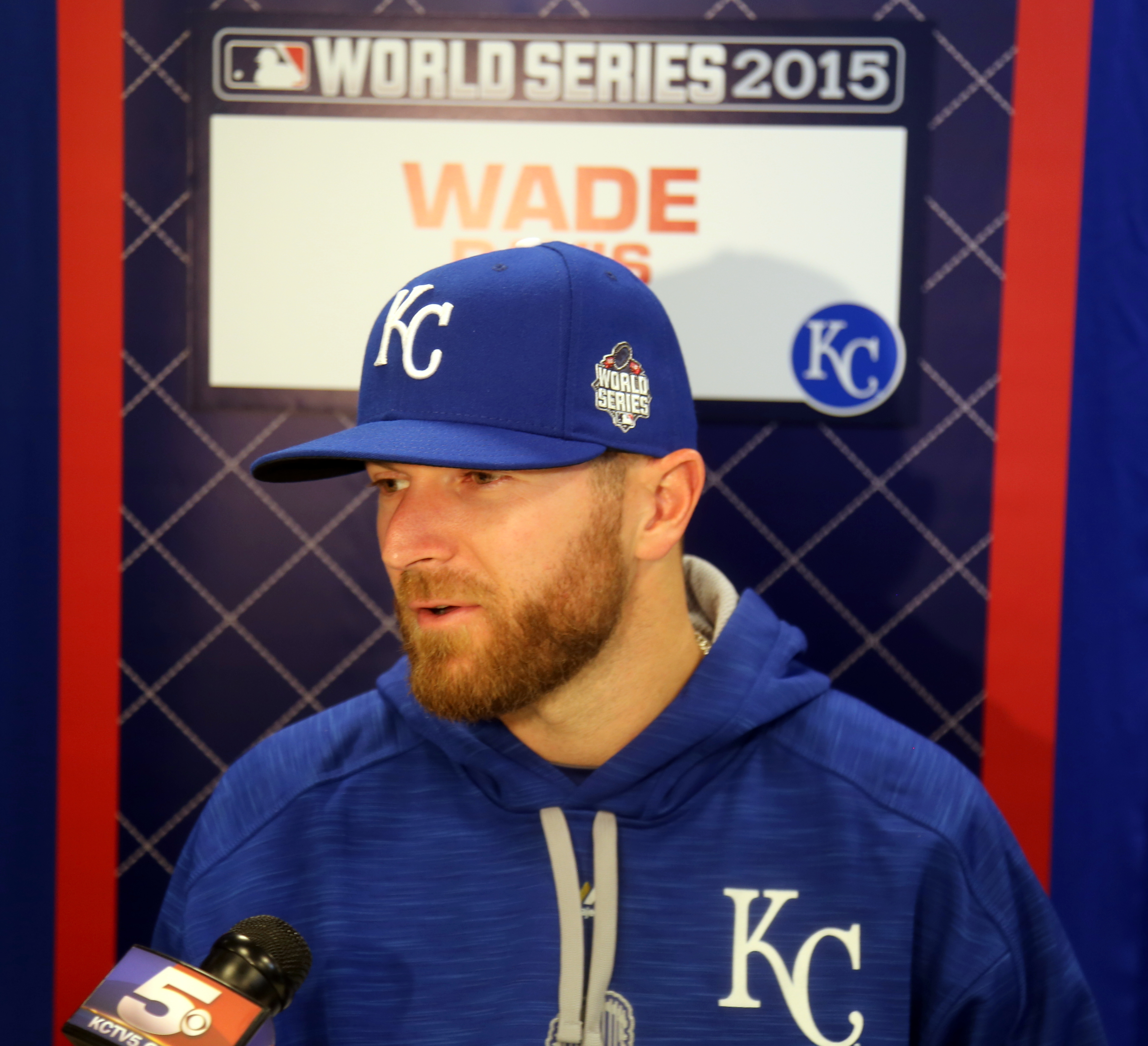 Wade Davis talks to reporters on #WSMediaDay.